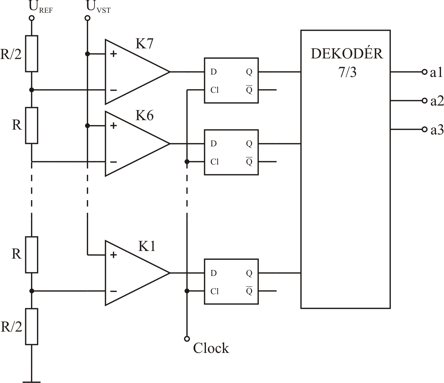 ADC